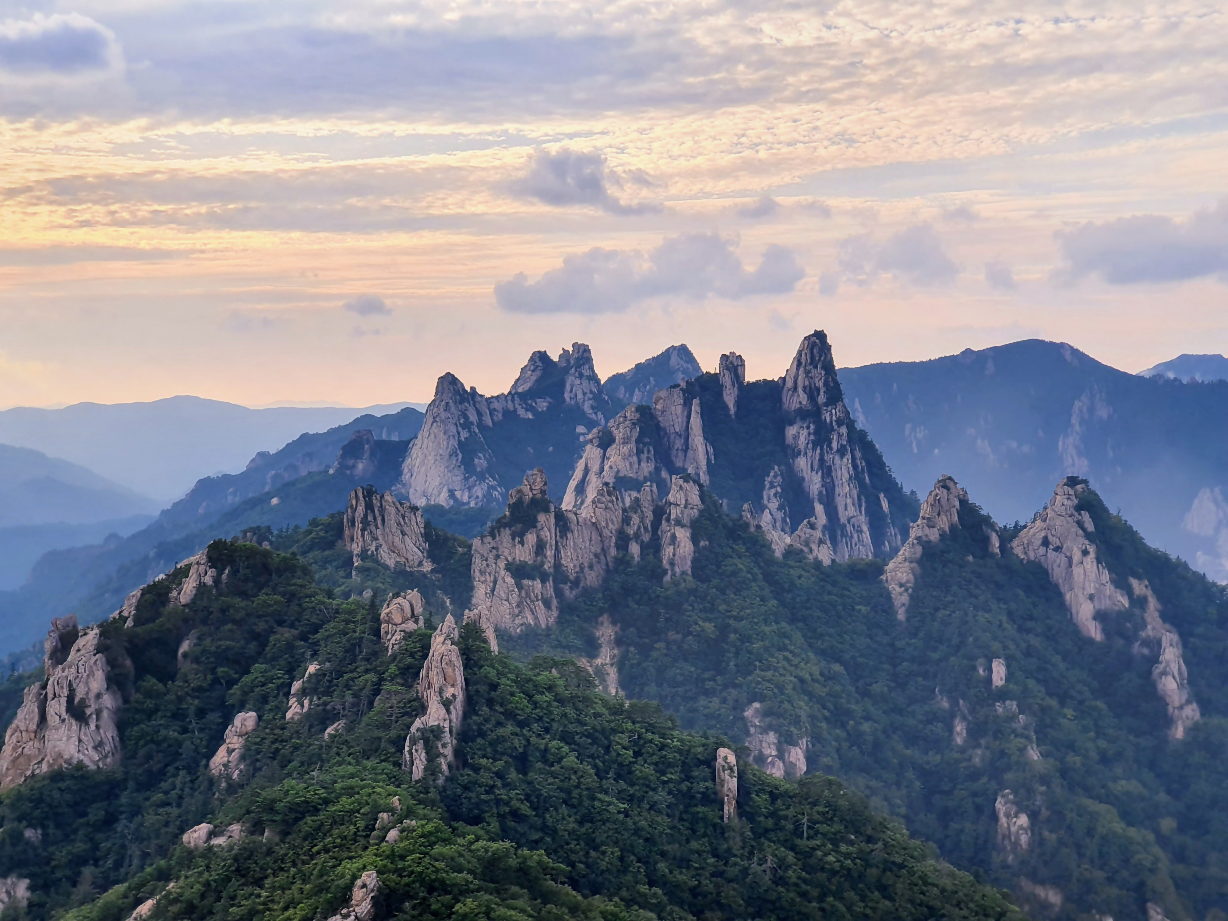 Taken at the end of the Dinosaur Ridge of Seoraksan in August 2019